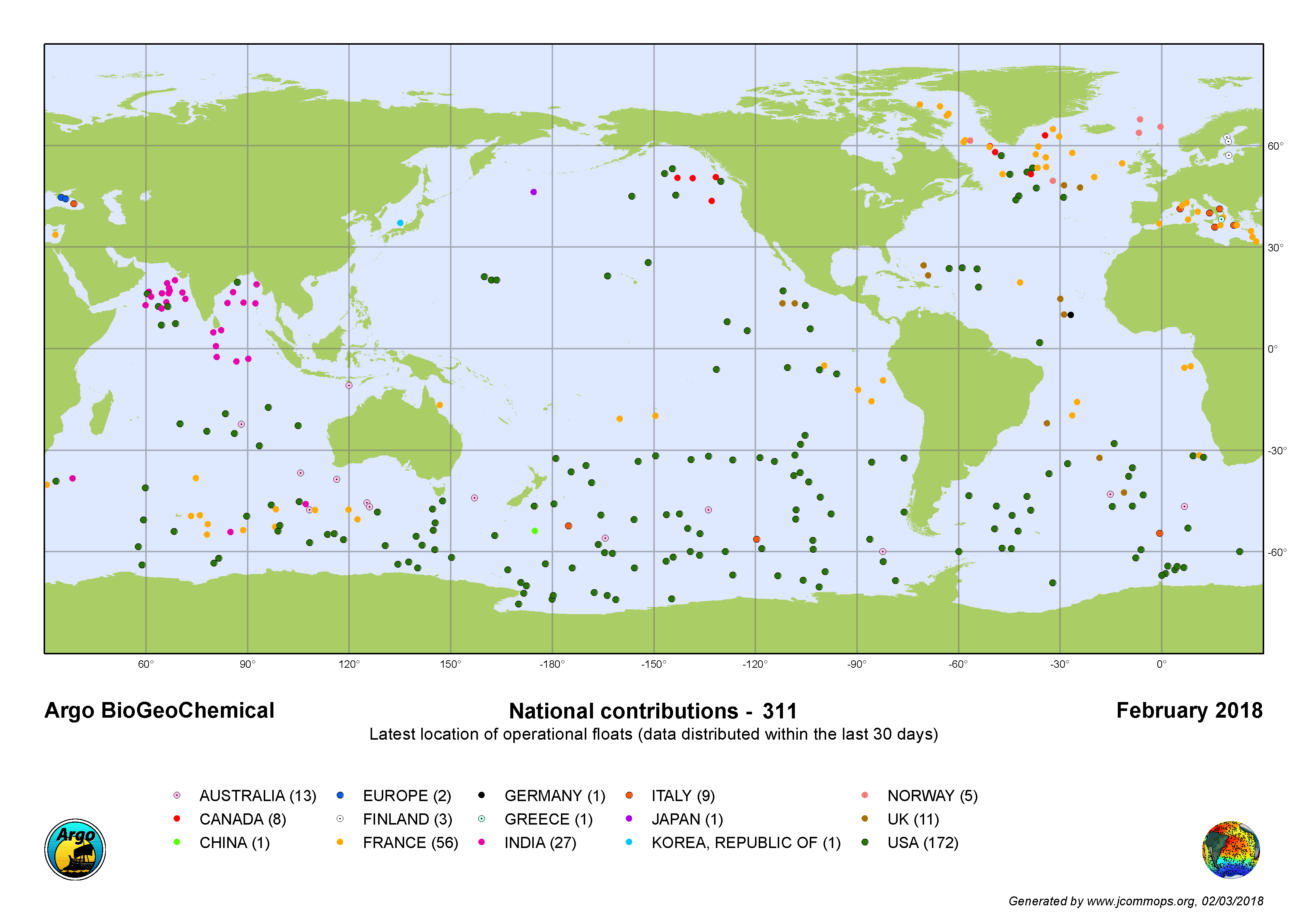 The distribution of Argo floats in March 2018 that carry BioGeochemical Sensors